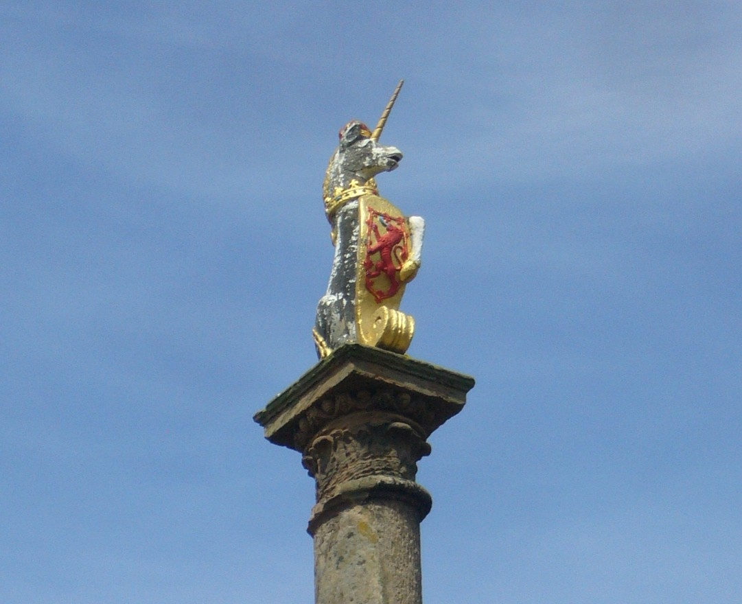 Royal unicorn finial on the old mercat cross of Salt Preston, now Prestonpans